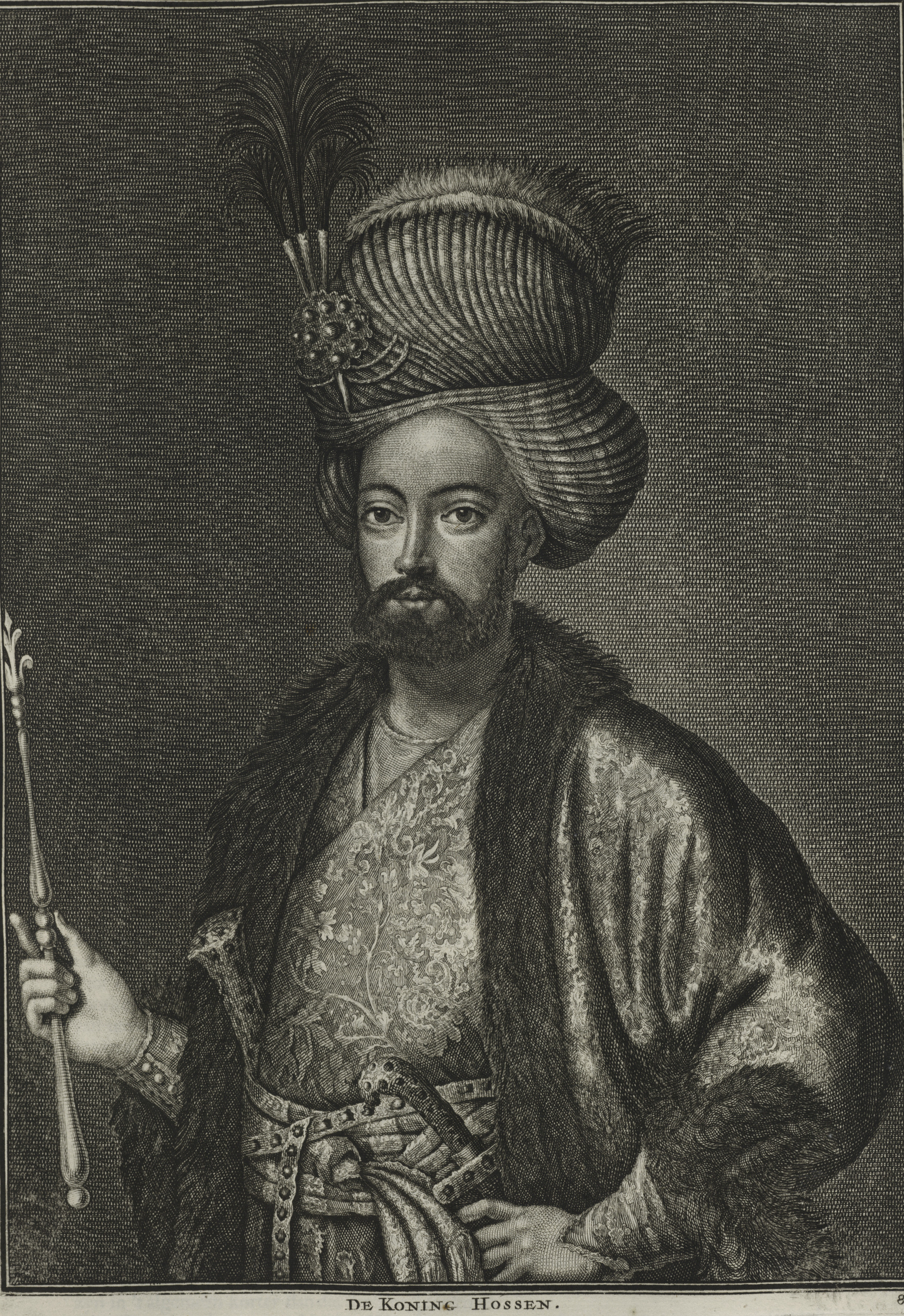 Shah Sultan Husayn, by Cornelis de Bruijn